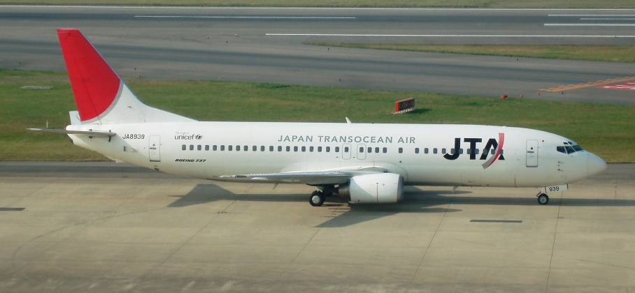 Japan Transocean Air Boeing 737-4Q3